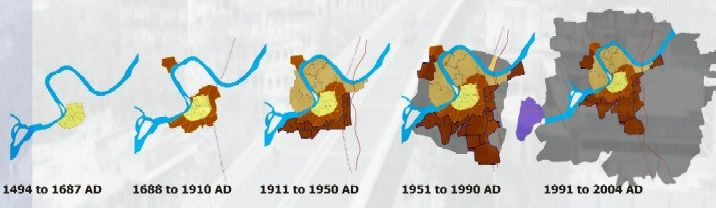 surat